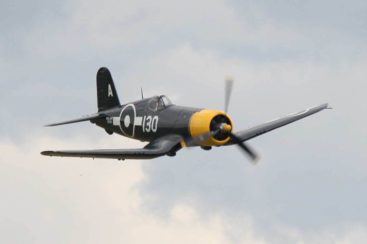 FG-1D Corsair at the 2008 'Flying Legends' air show in Duxford, UK.